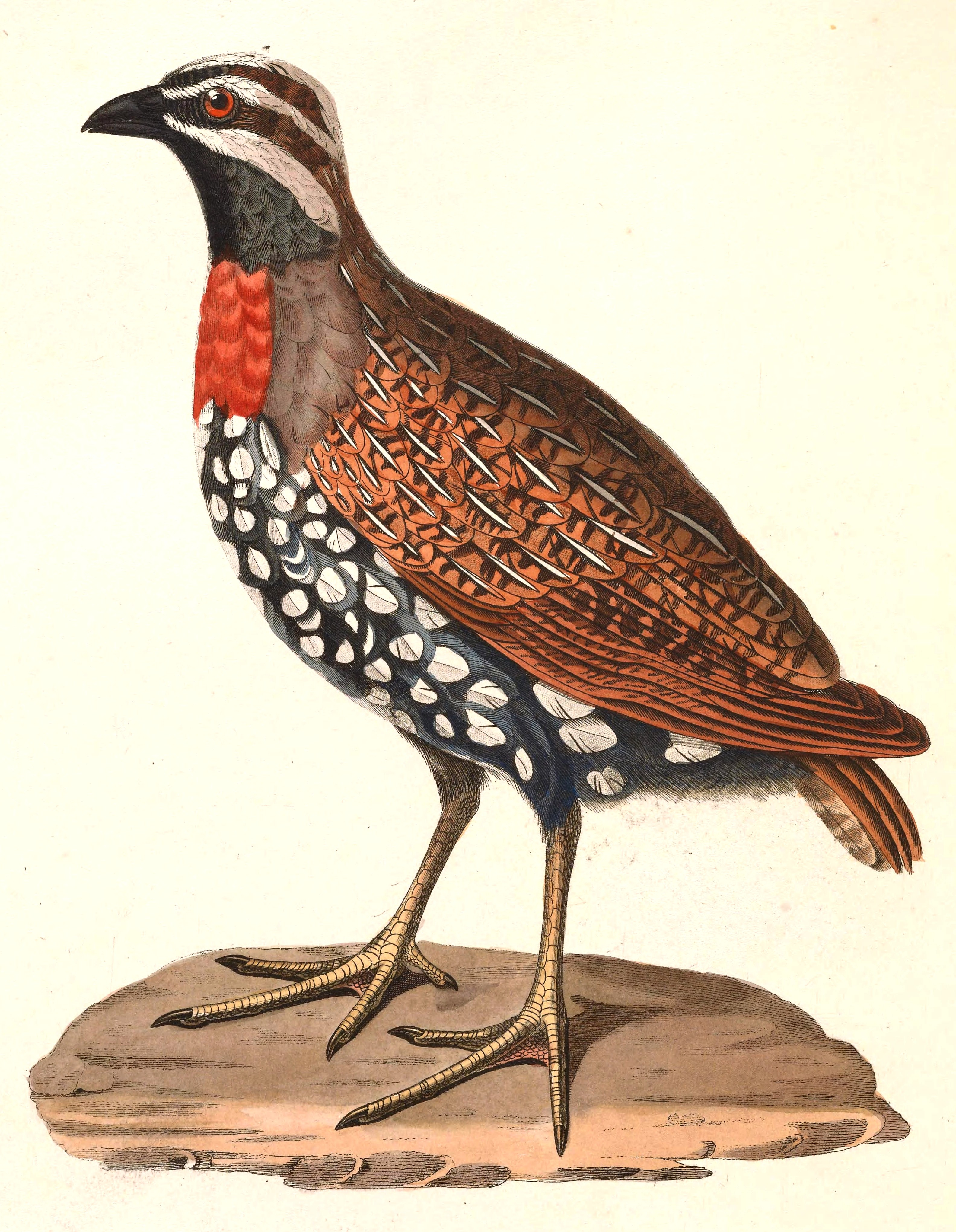 « Perdix striata » = Margaroperdix madagarensis (Madagascar Partridge) - male